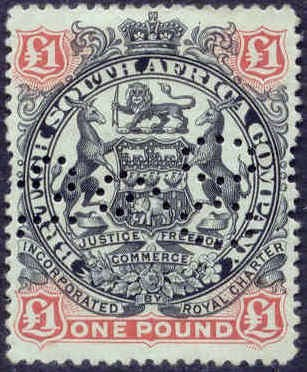 British South Africa company perfin stamp - Rhodesia, 1897.